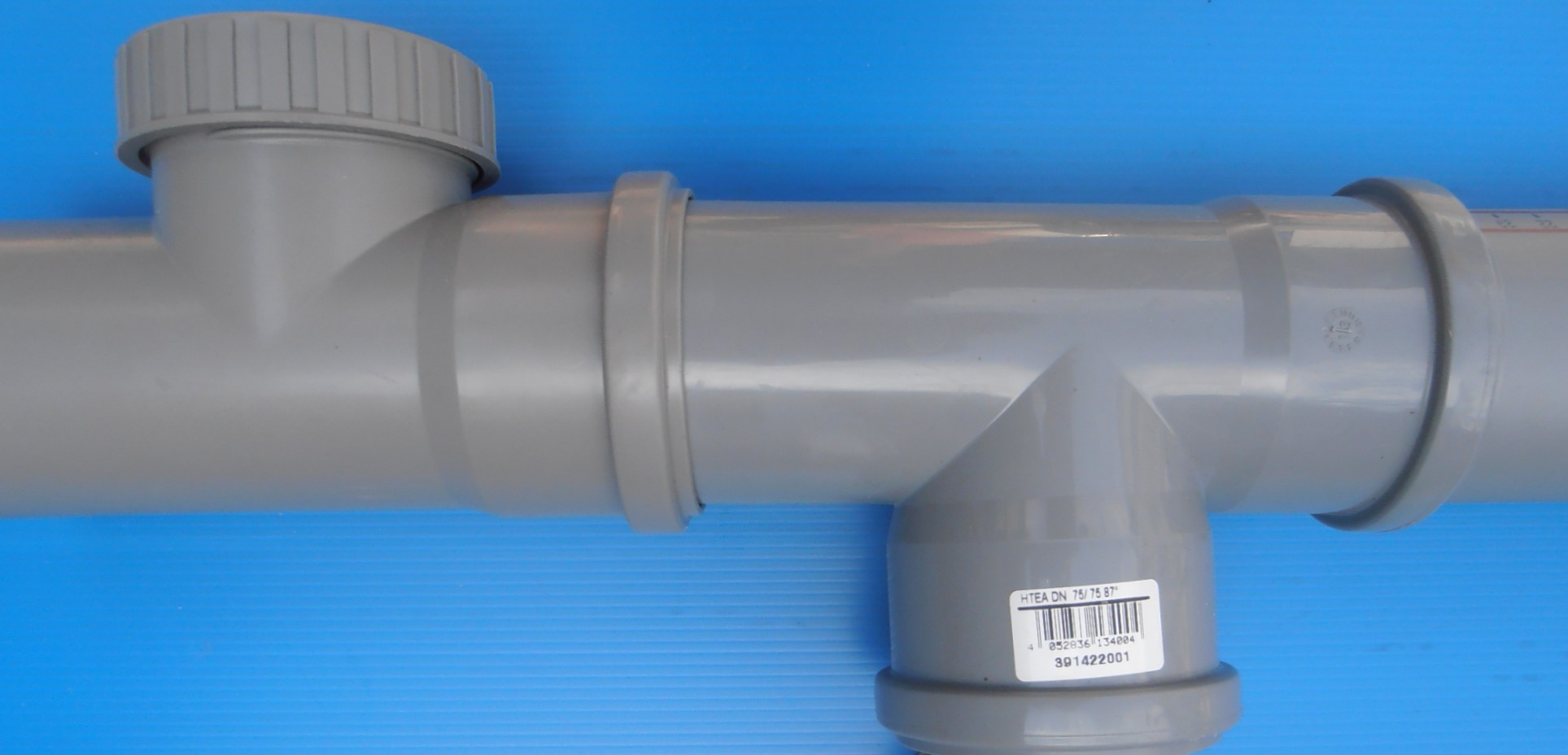 Plastic tube with fittings